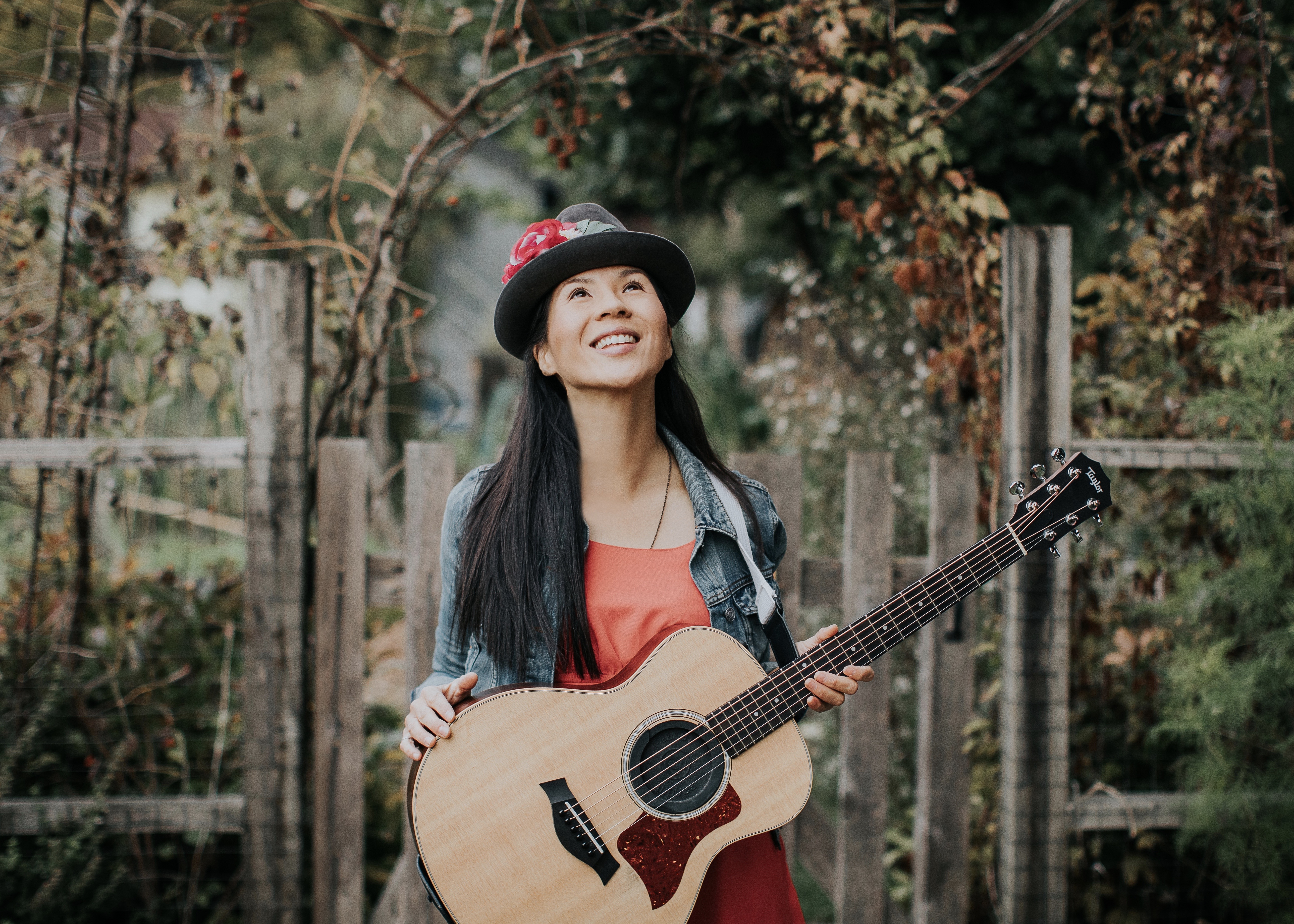 Ginalina: Family Folk artist